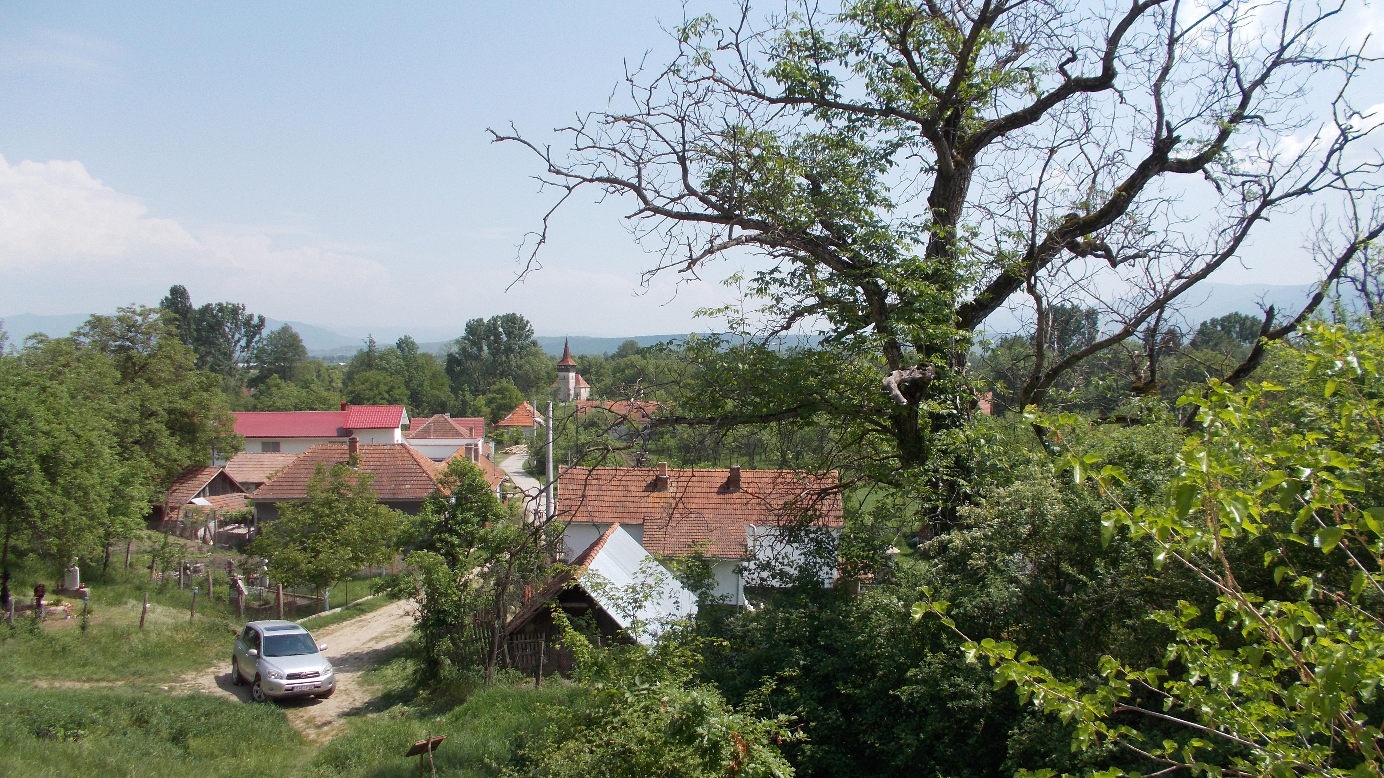 Peșteana Village, Hunedoara County, Romania